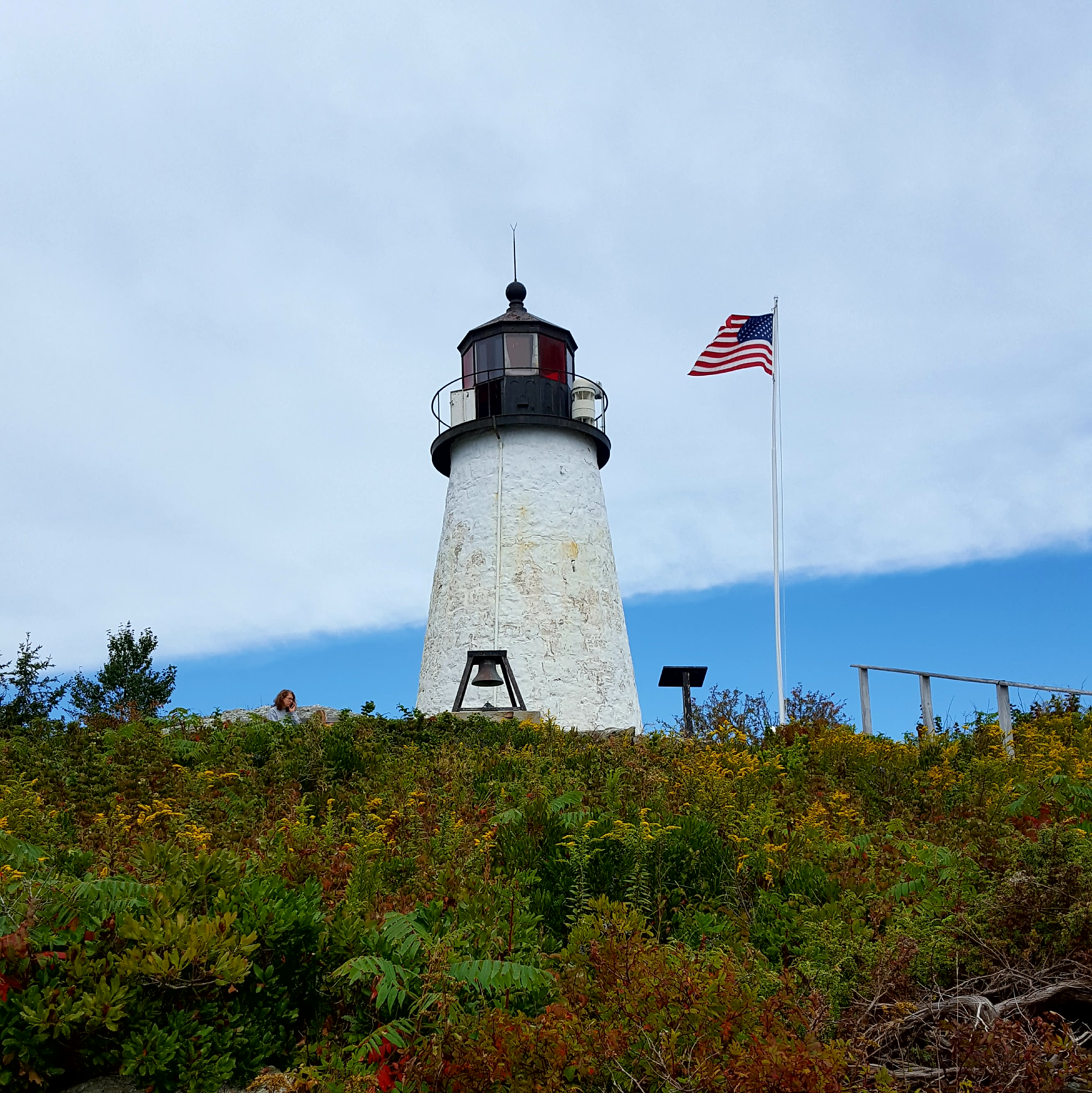 Burnt Island Light, viewed from the rocky shoreline downhill from it. The foliage is showing the colors of early autumn.